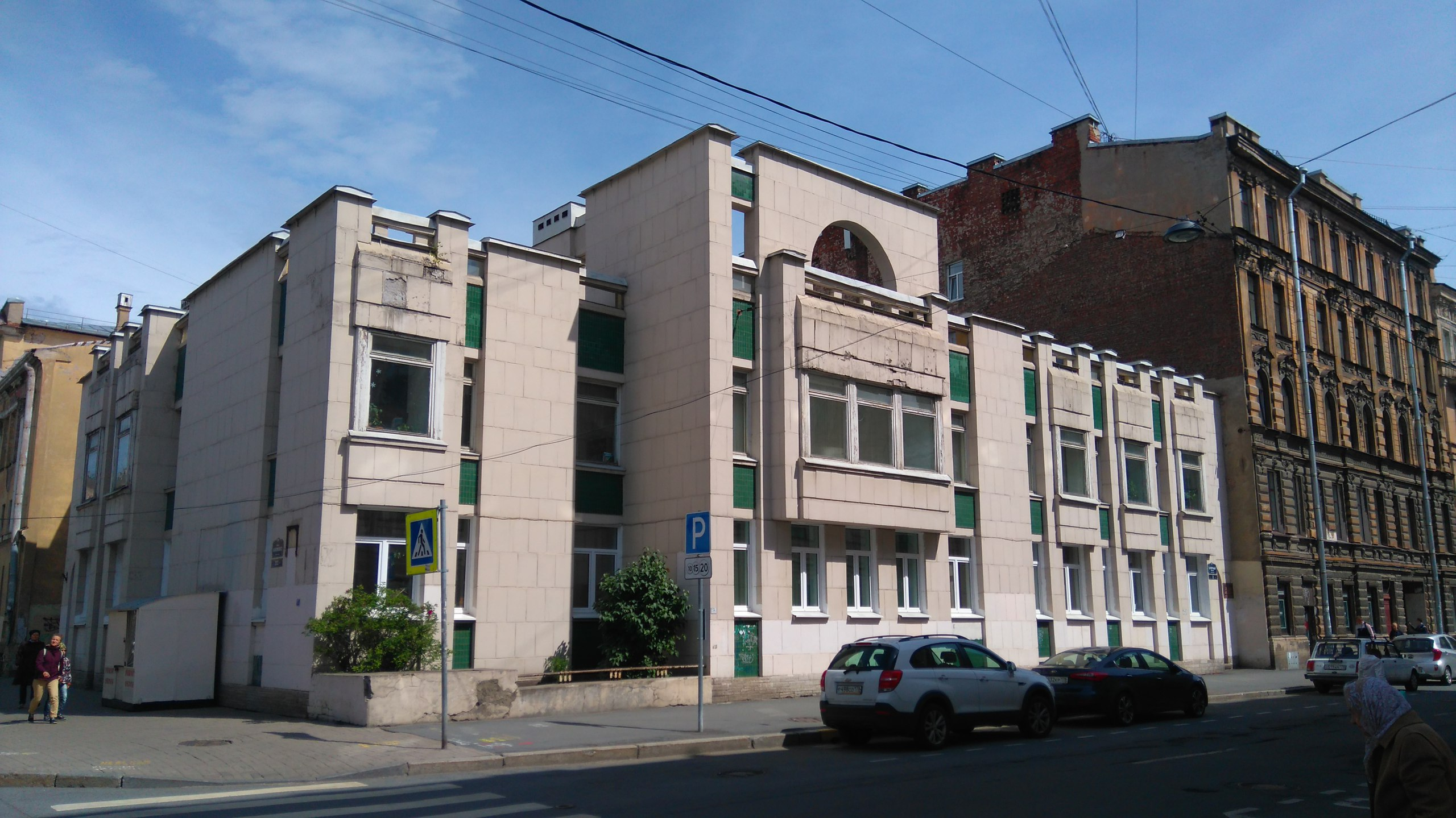 Kindergarten. Sapyorny Lane, 2. Architect Nikolai Nadёzhin